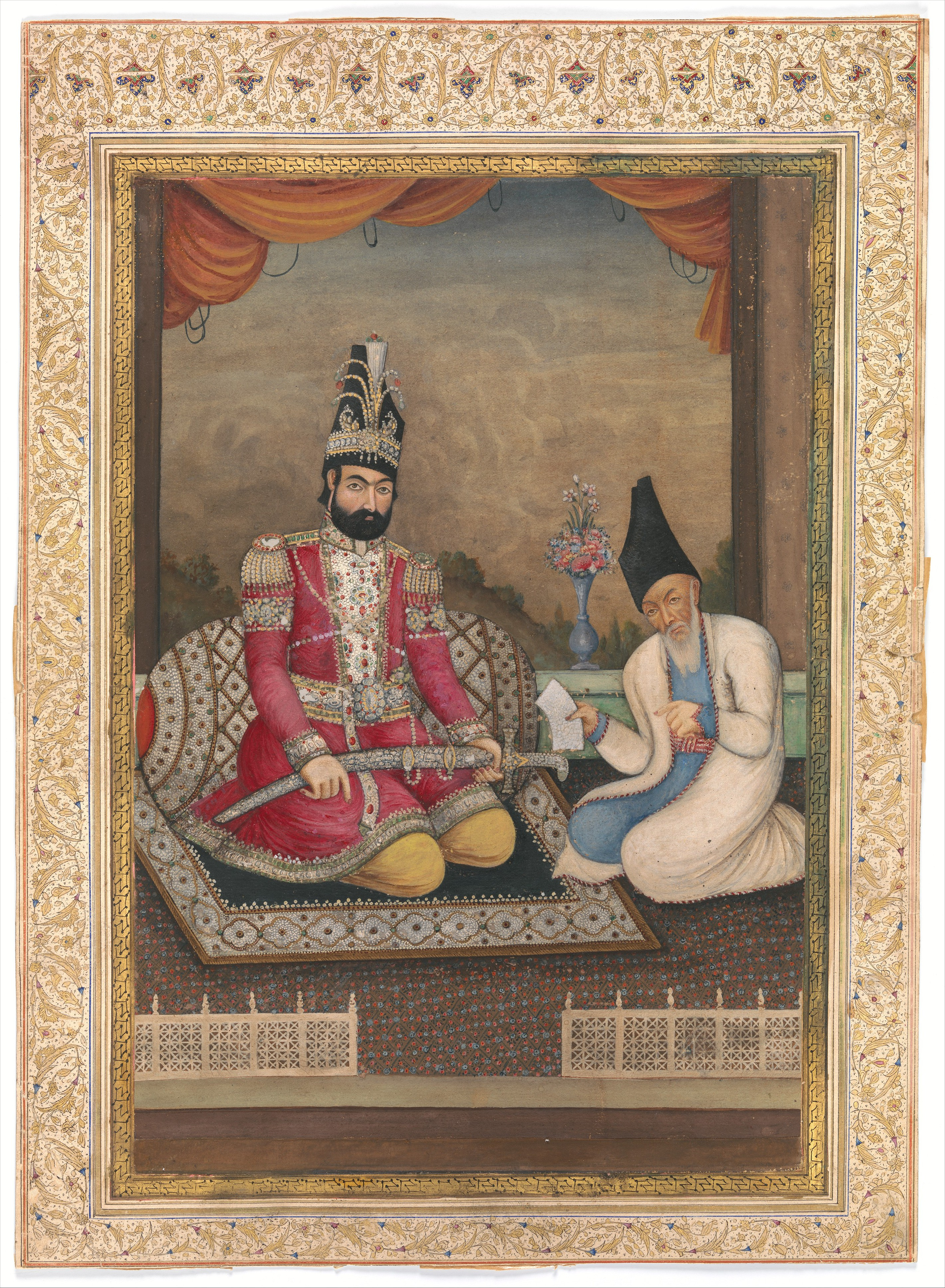 Single work, illustrated; Codices